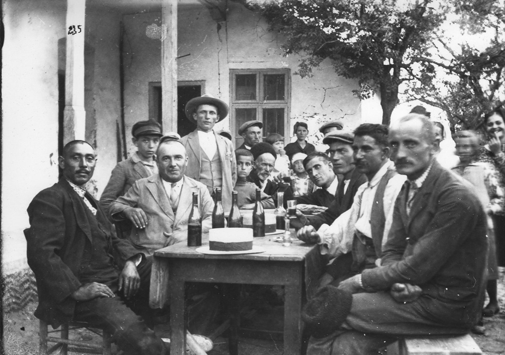 Malotin and Hozman. Lom, 1922.